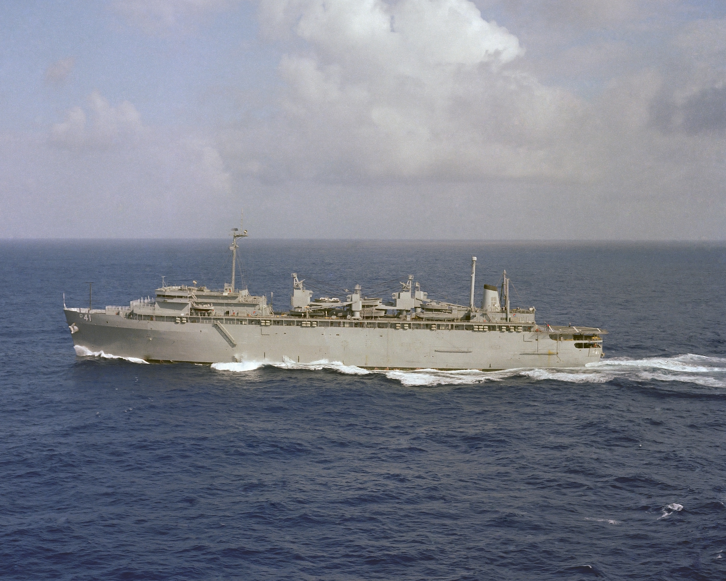 The U.S. Navy destroyer tender USS Yellowstone (AD-41) underway on 1 September 1981.